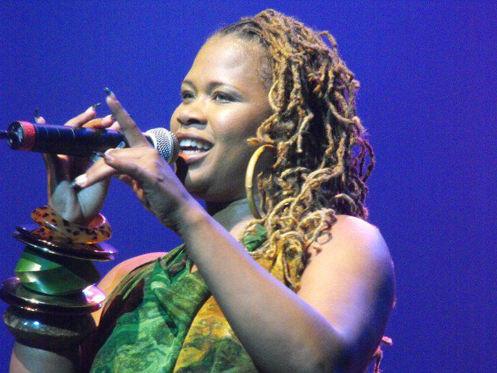 C.Pters